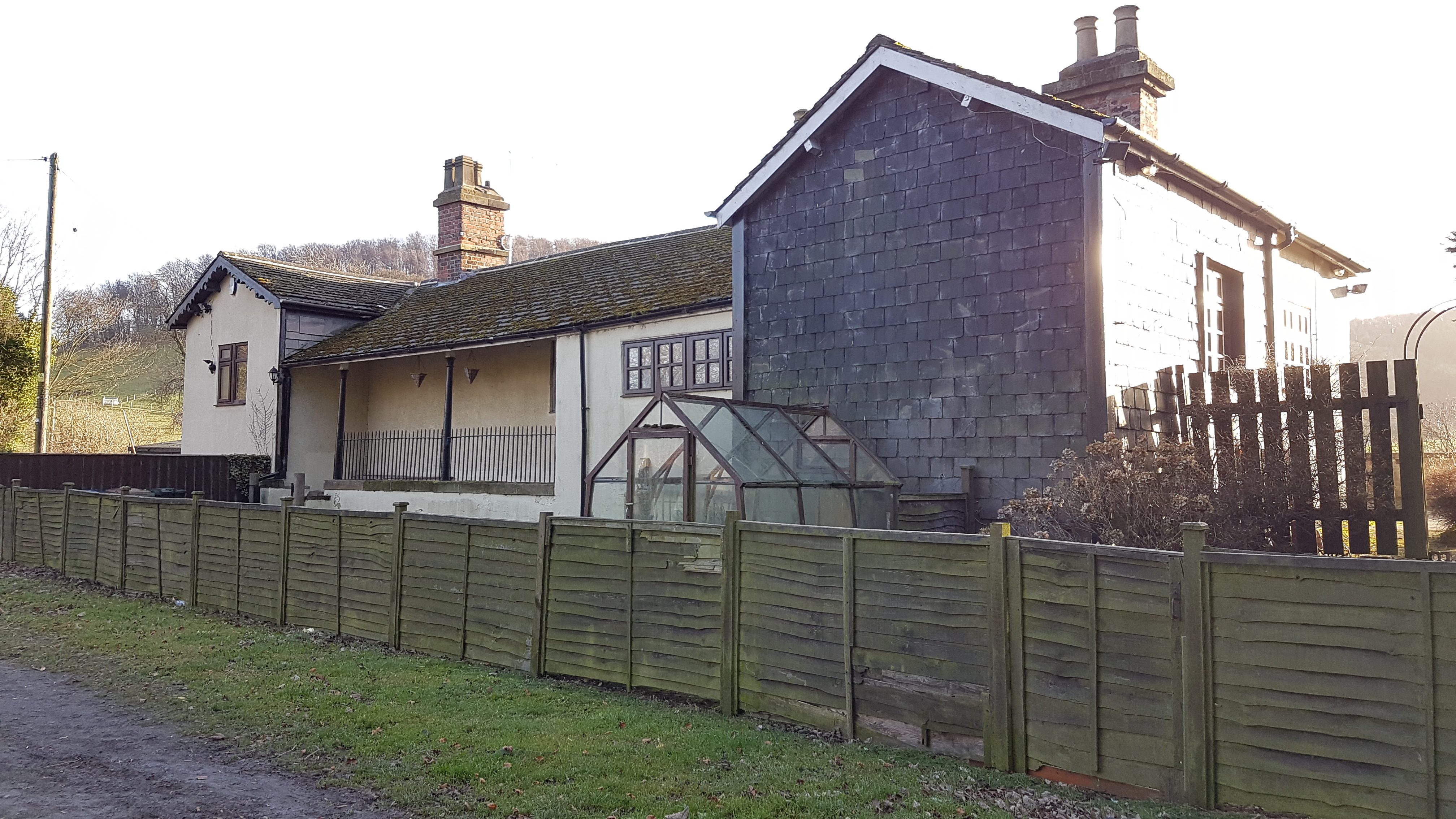 The first Pinchinthorpe railway station (in use 1854-77)